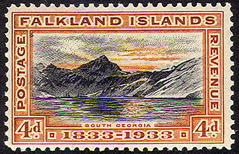 Postage stamp of Falkland Islands showing South Georgia